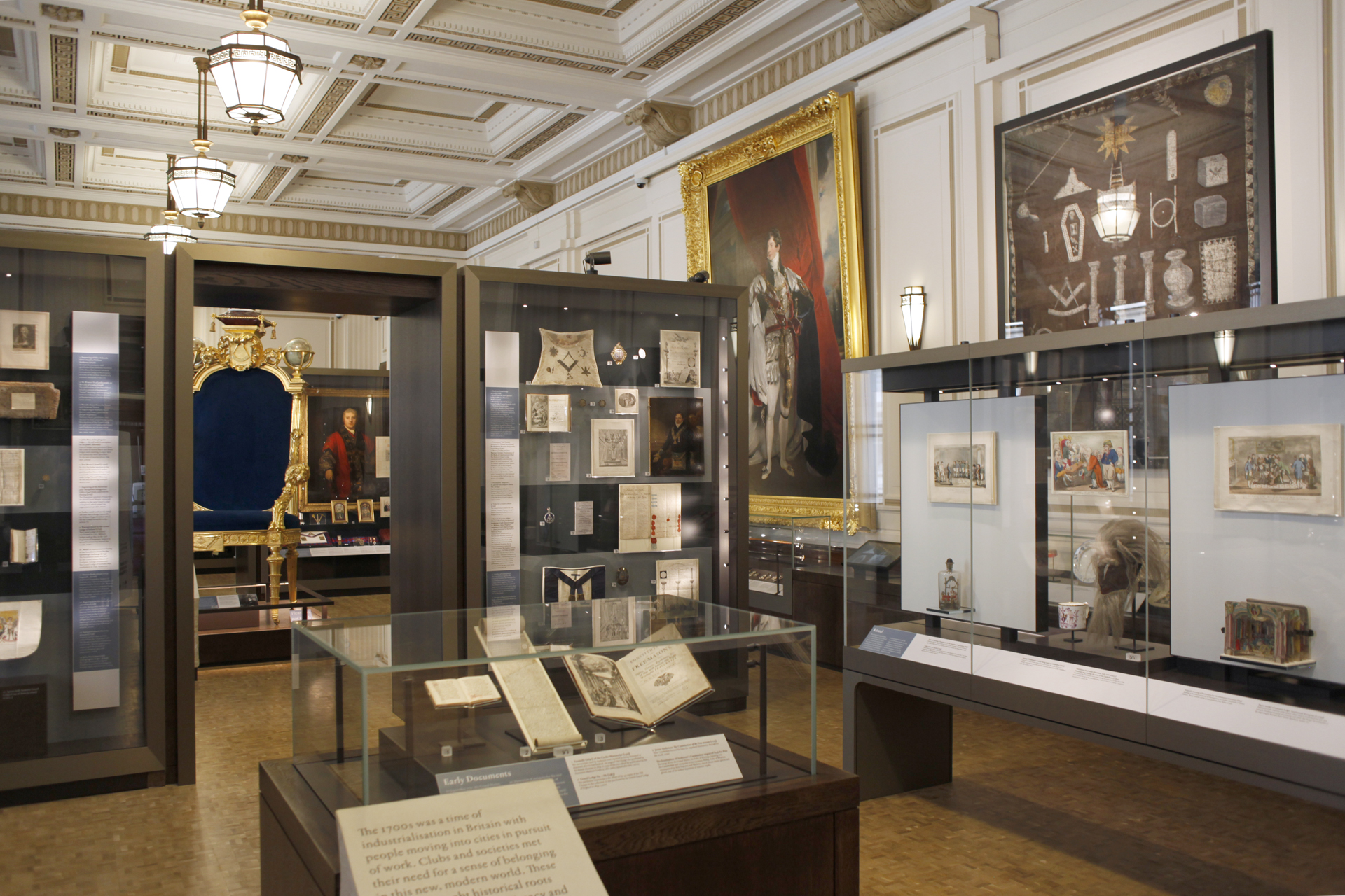 Museum of Freemasonry North Gallery, 2018